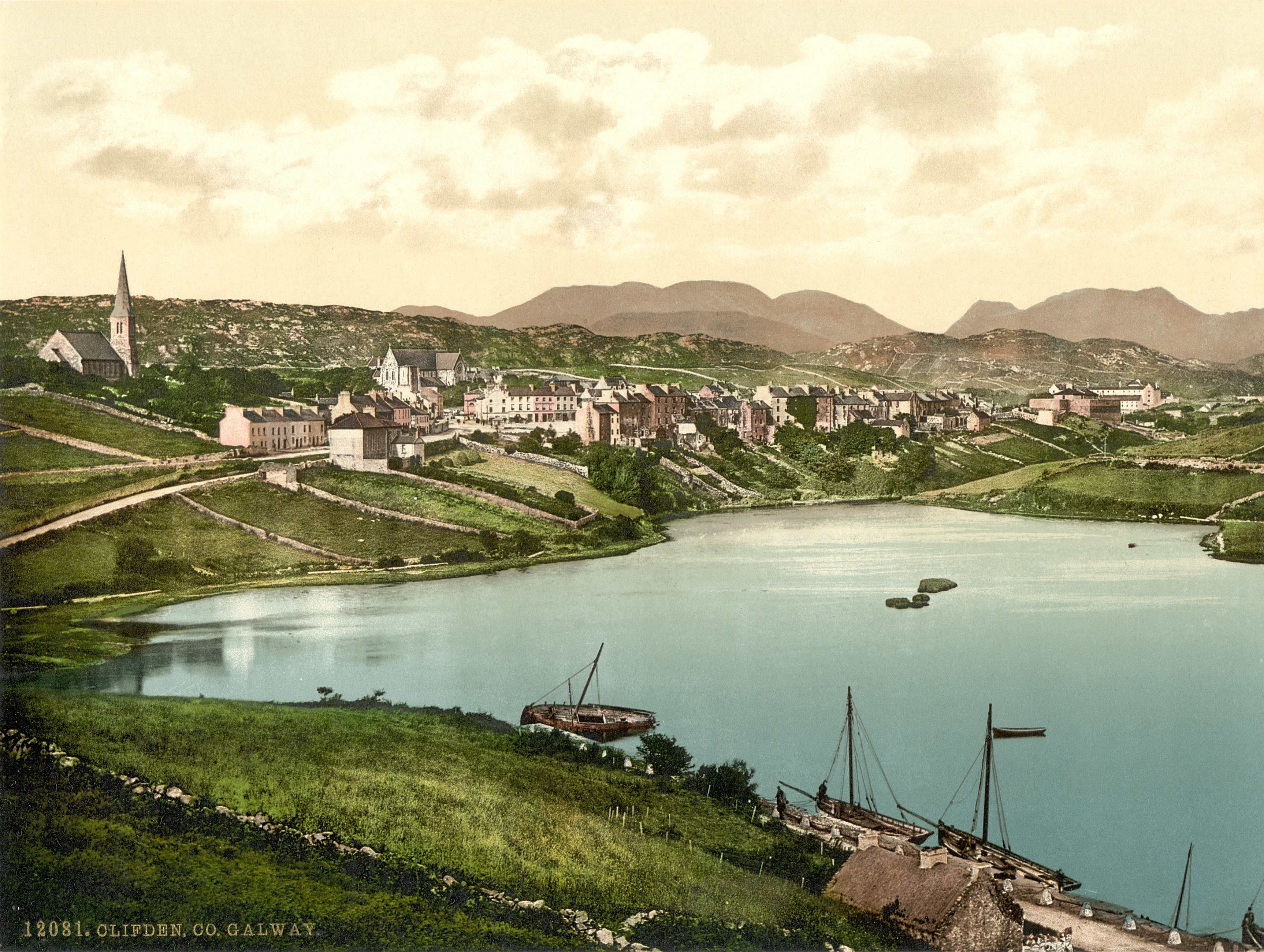 Clifden. County Galway, Ireland. Photochrom print.